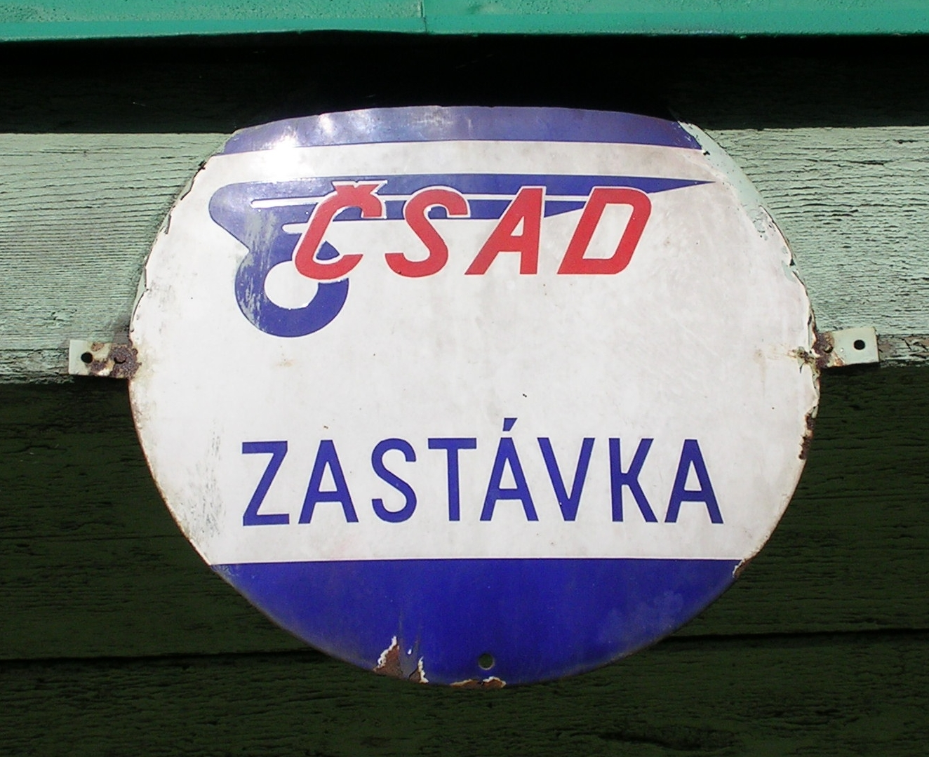 A bus stop sign, the state enterprise ČSAD, of cca 1960s, Czech Republic